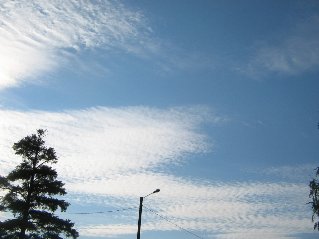 Altocumulus clouds on sky. On upper left orner altostartus-like cloud structure, where convection is punching some holes.